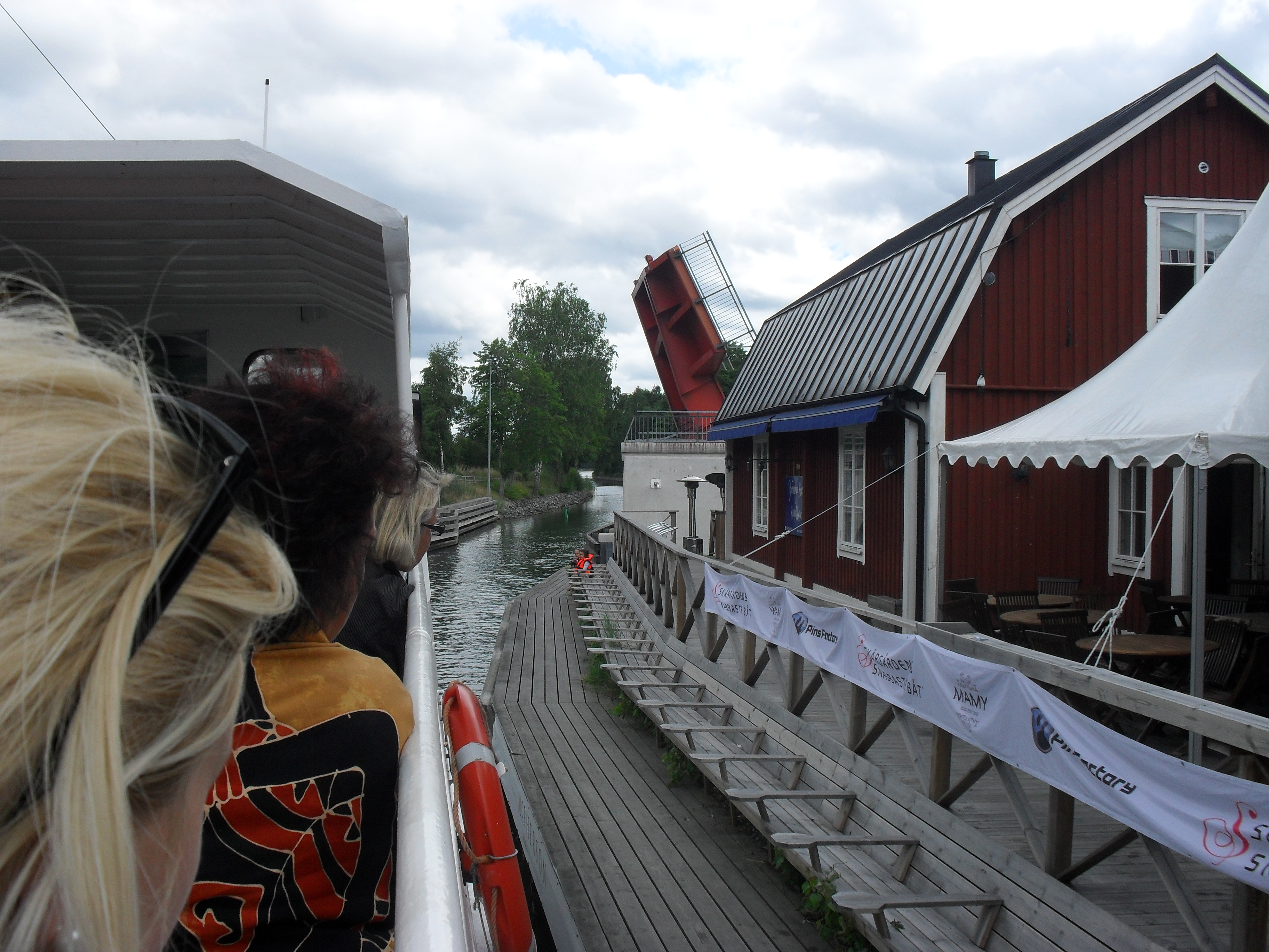 A view of the Stromma Canal restaurant, Varmdo, Sweden.